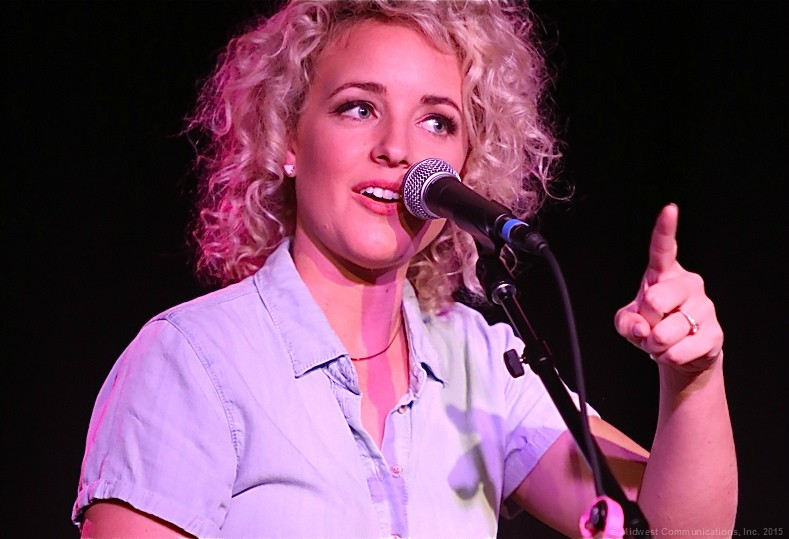 Country singer Cam in performance for Y100's Bra Country Concert on October 14th at the new "Backstage At The Meyer" in downtown Green Bay to benefit the Breast Cancer Family Foundation